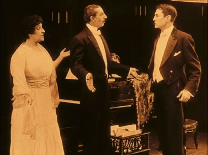 L. to R. : Grace Reals, Mario Majeroni & William Gillette in Sherlock Holmes - cropped screenshot